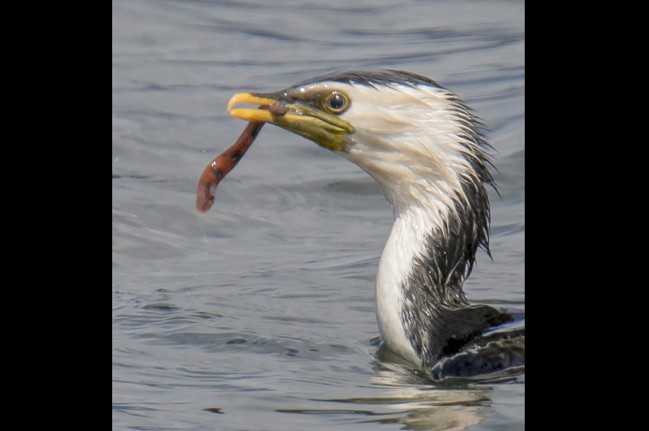 Little pied cormorant Microcarbo melanoleucos; Common shore eel Alabes dorsalis